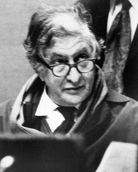 Photograph of Bernard Herrmann